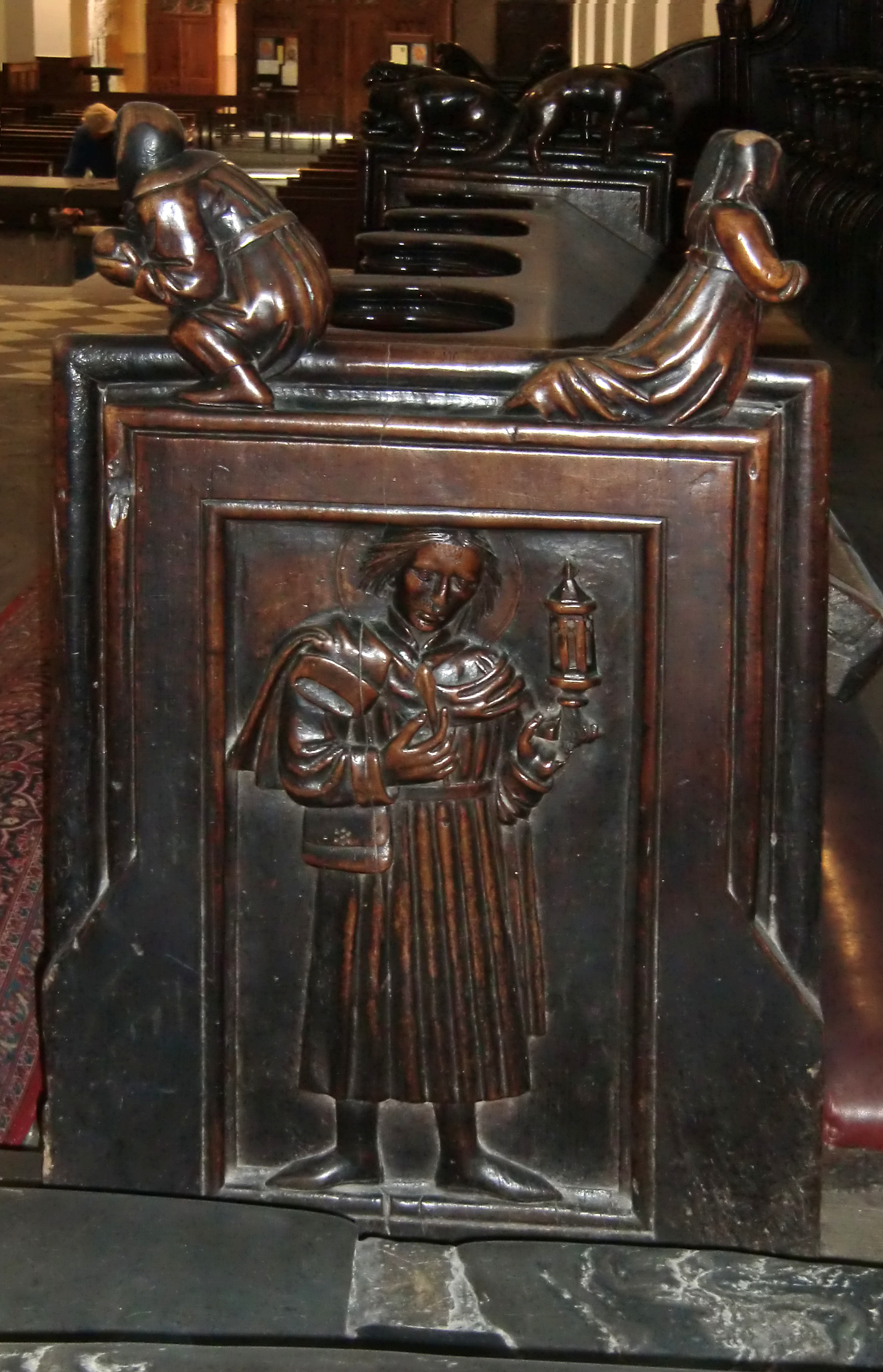 Jean Vion de Samoëns and Jean de Chetro, choir stalls, ca. 1469, Aosta, Cathedral